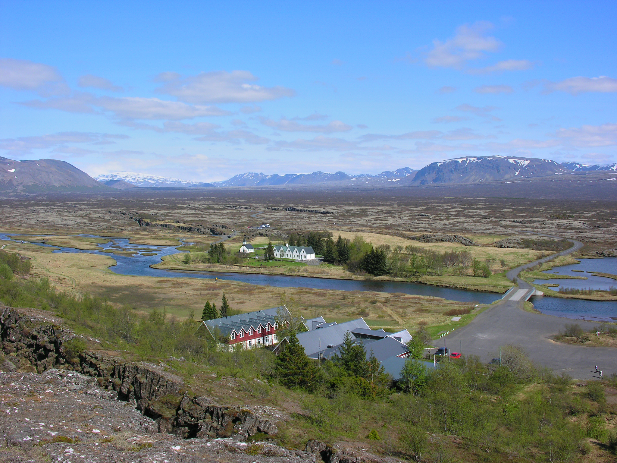 Iceland, a day around Þingvallavatn. (Please note: Hotel Valholl shown in front of the picture burnt down in july 2009)